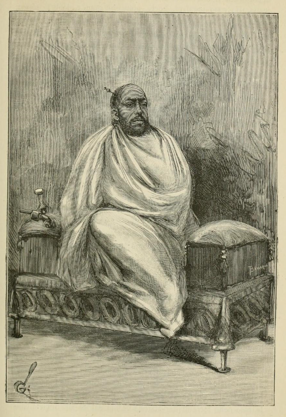 Engraving showing the future Emperor Menelik II of Ethiopia at the time he was king of Shewa. Note the revolver lying on the armrest. Engraving by a member of the second Italian mission to Shewa in 1877.